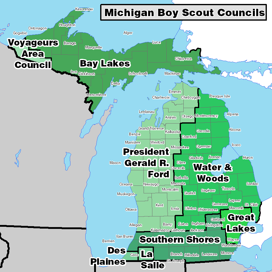 Michigan BSA Councils - Map created using boundary information publicized by the relevant BSA councils. US Census TIGER data used for county and state lines. Council divisions are exact where they coincide with county lines and approximate in other areas. All councils on this map are in the central region.